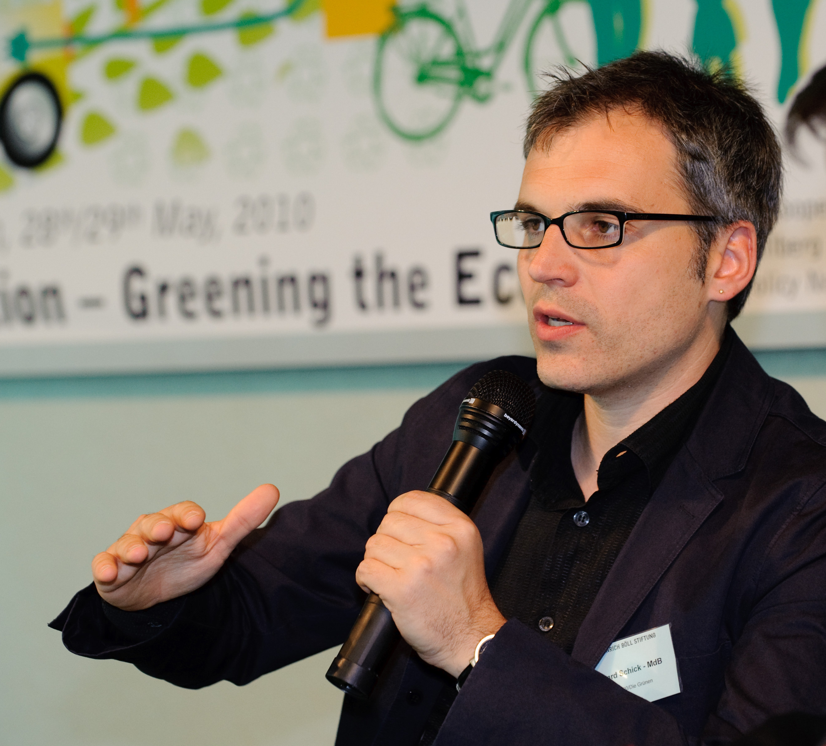 Foto: Stephan Röhl